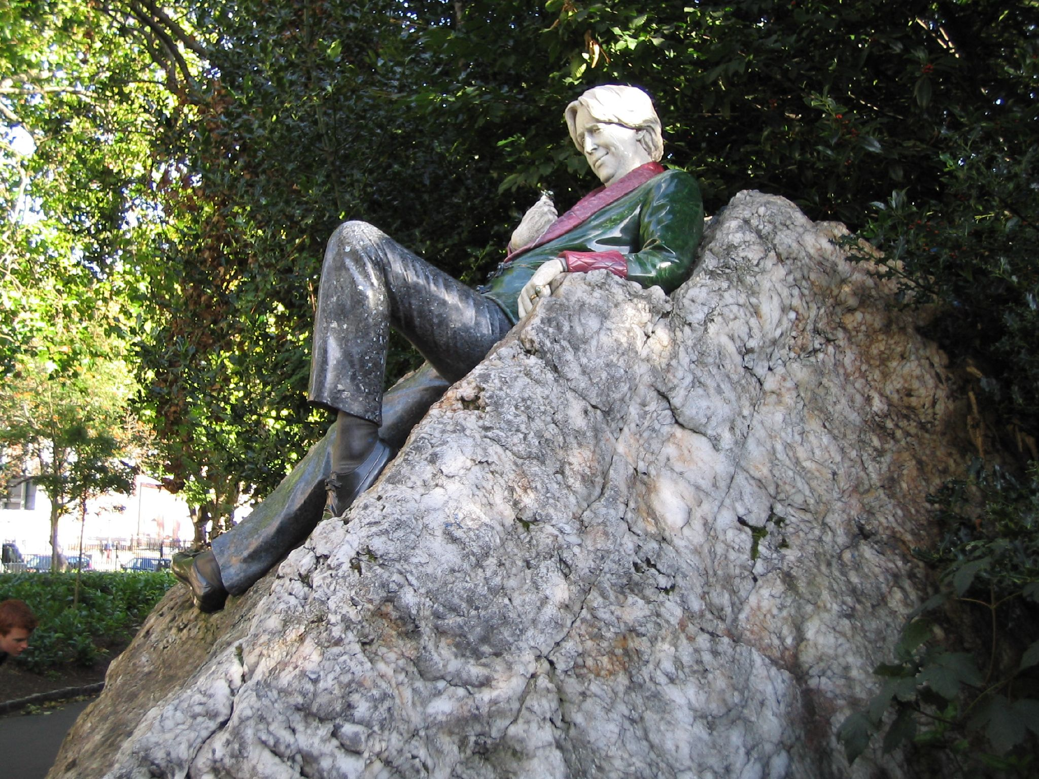 In Merrion Square, inside the north west corner gateway, there's a gaudy statue of Oscar Wilde composed of different coloured stone, sitting on a large granite boulder. This has been called at least once The Queer with the Leer, The Fag on the Crag or The Quare in the Square ("quare" being a dialectal Irish pronunciation of queer).